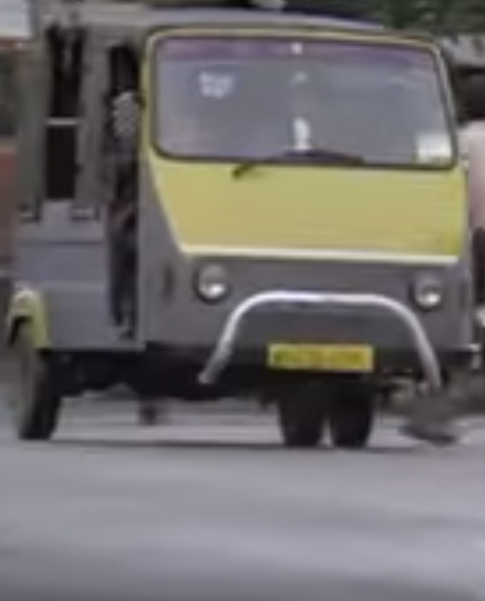 ६ आसनी रिक्षा / टमटम